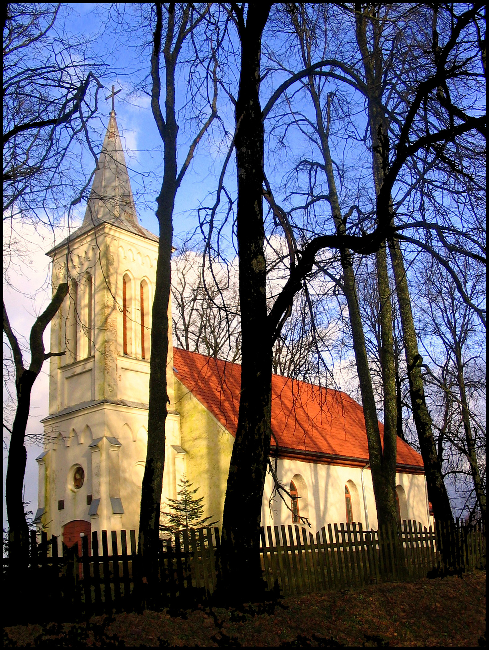 Lipaiki Evangelic Lutheran Church